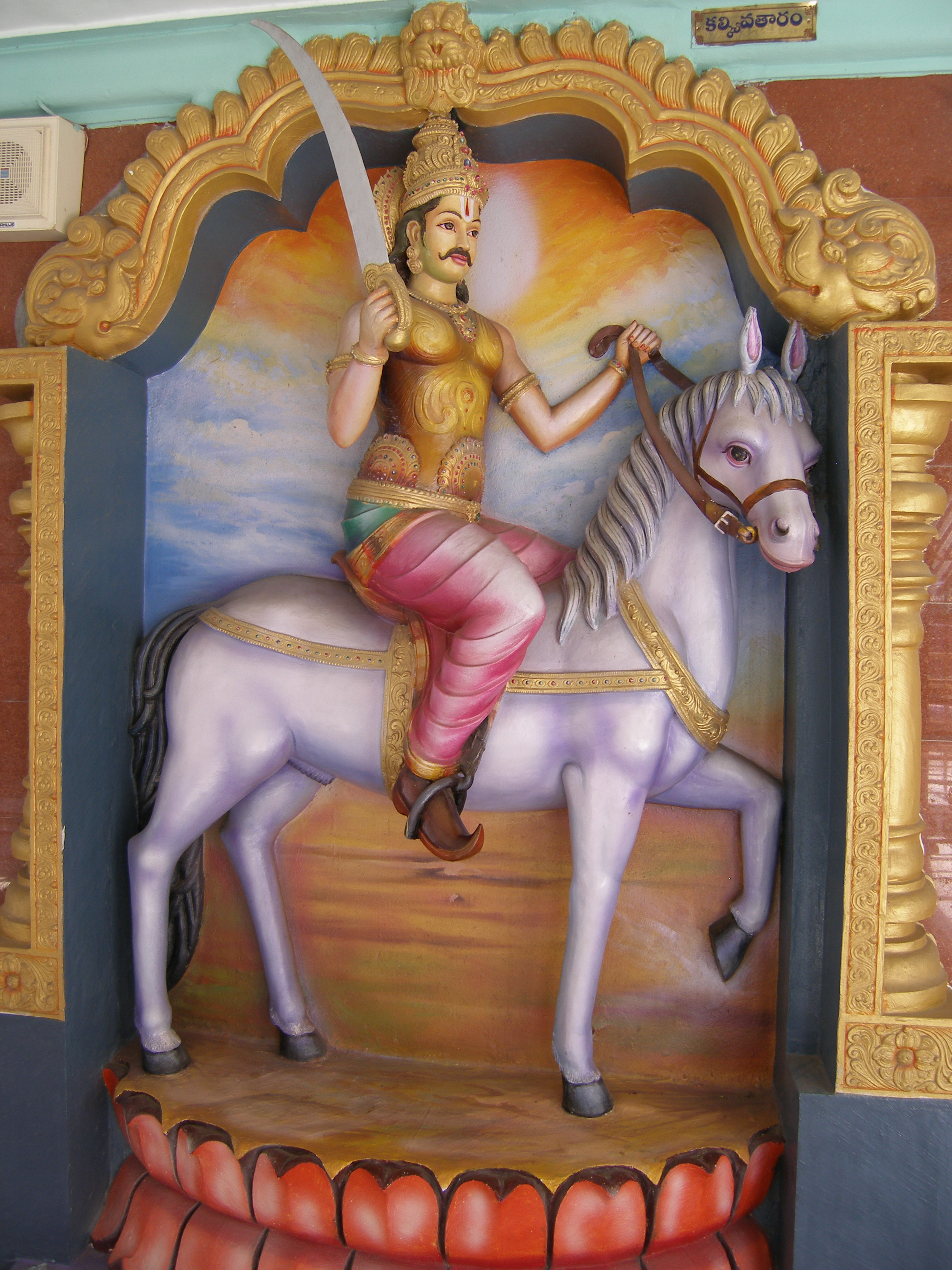 Kalki avatara of Lord Vishnu at Narayana Tirumala.